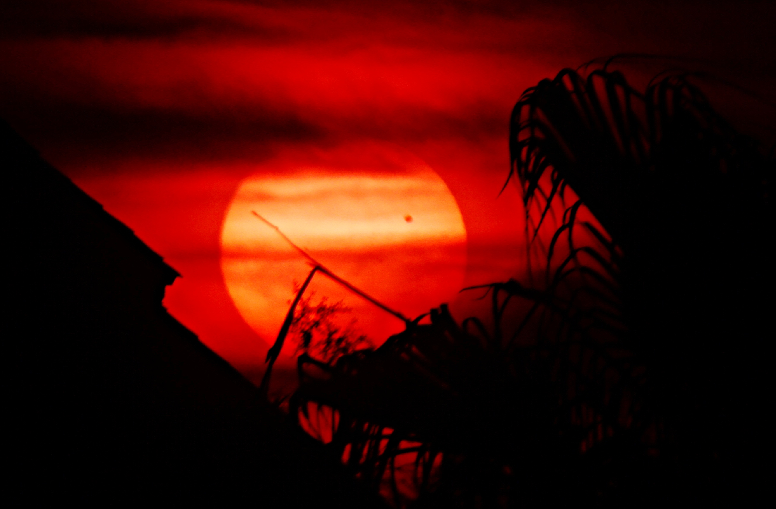 Transit of Venus at sunset, Tiki Island, TX, USA